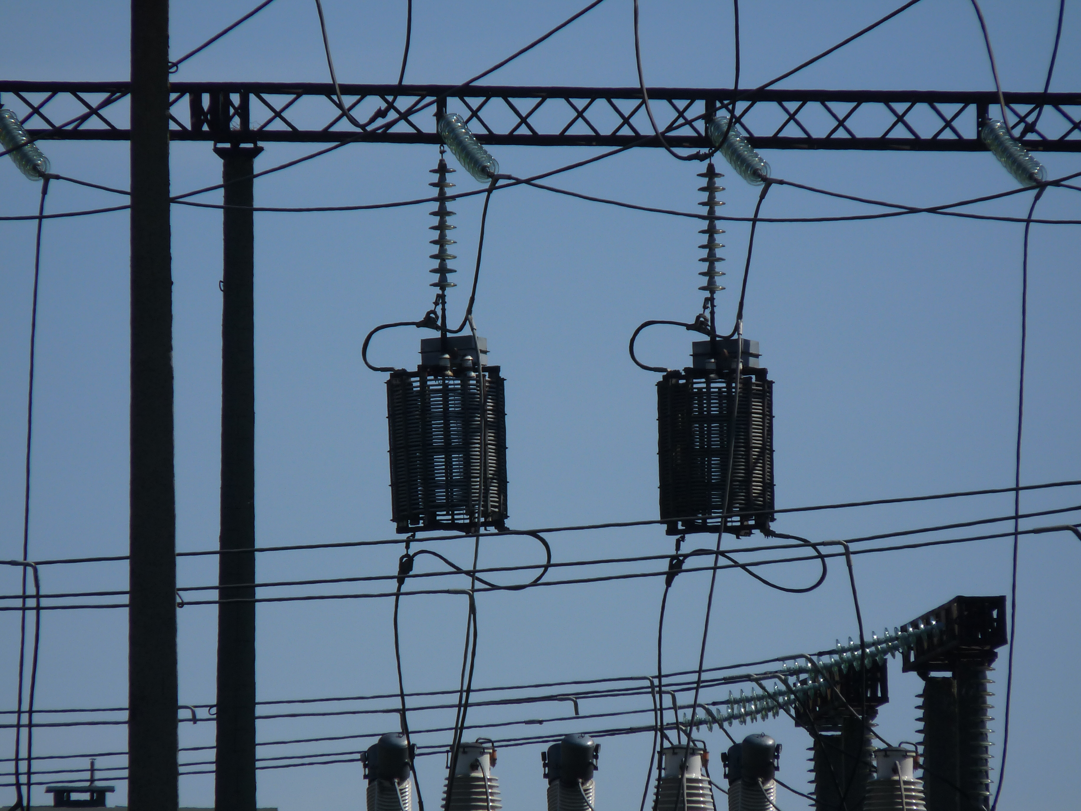 Current reactors